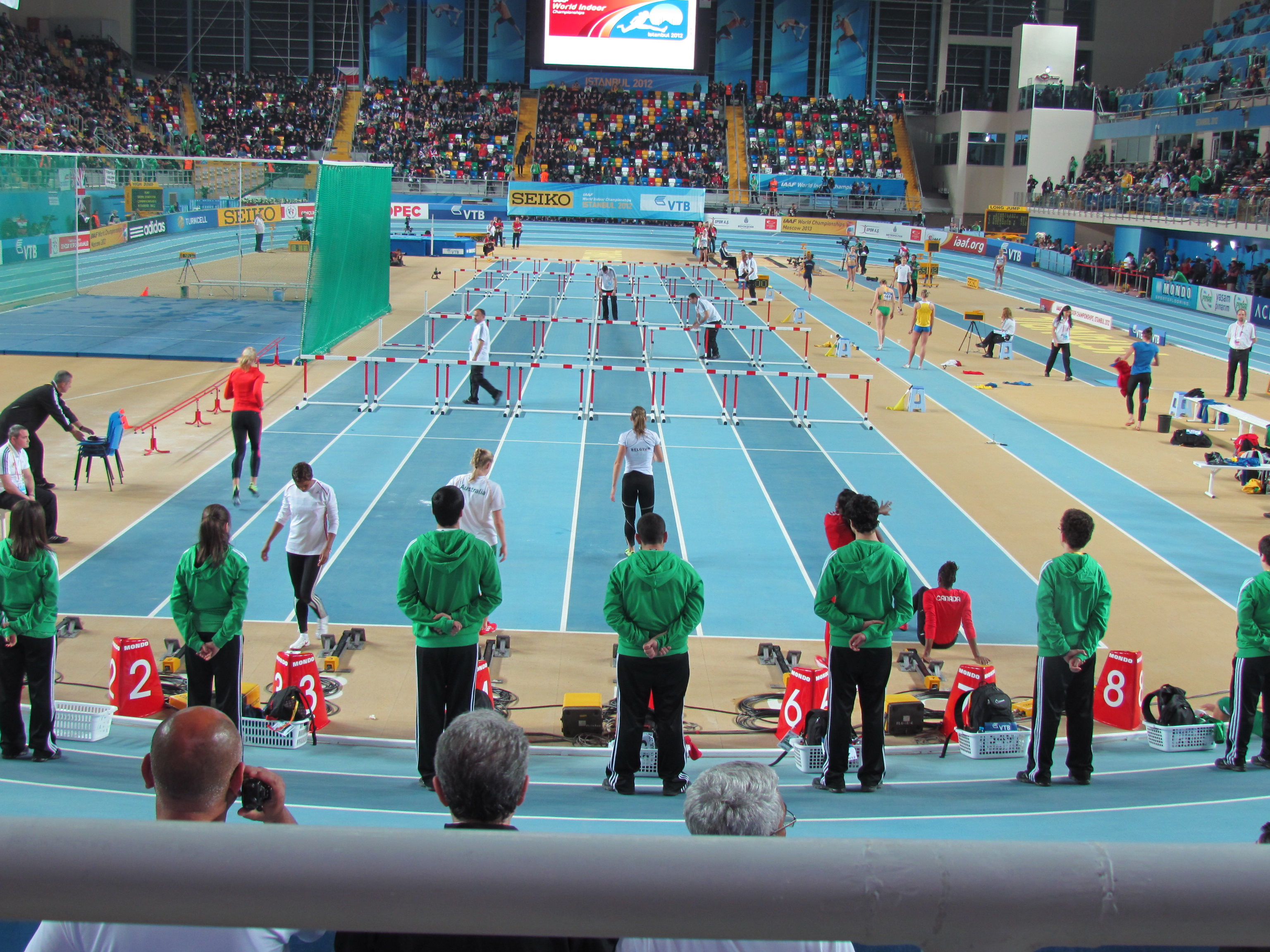 The 2012 IAAF World Indoor Championships in Athletics was the 14th edition of the global-level indoor track and field competition and was held between March 9–11, 2012 at the Ataköy Athletics Arena in Istanbul, Turkey. Cindy Roleder, Rosa Rakotozafy, Sally Pearson, Eline Berings